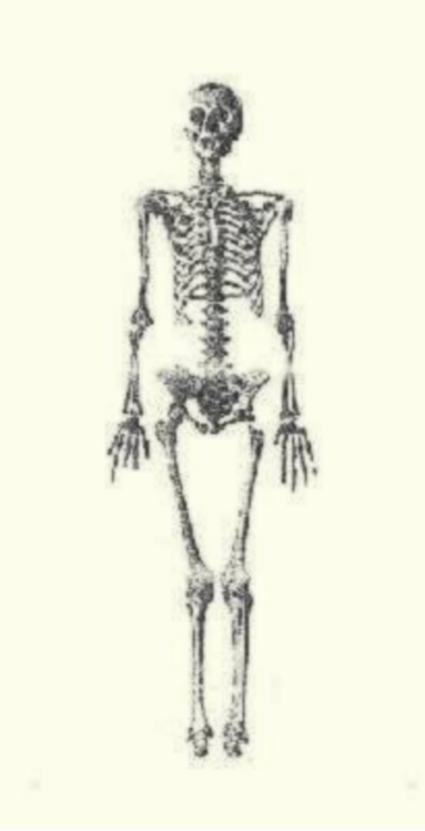 Skeleton of Anne of Antioch (Agnes of Chatillon), wife of Bela III king of Hungary